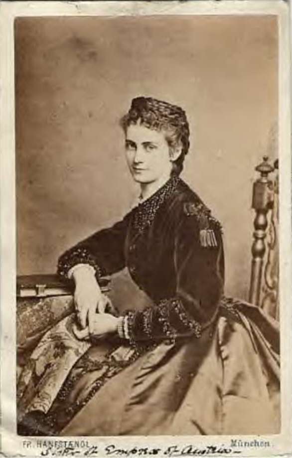 Sophie Charlotte Duchess in Bavaria (1847-1897)